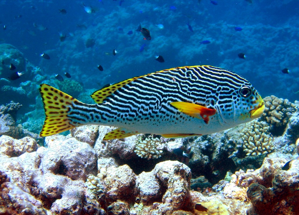 Oblique-banded Sweetlips (Plectorhinchus lineatus). North Horn, Osprey Reef, Coral Sea219759231